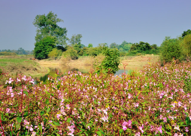 A profusion of Indian Balsam - Impatiens glandulifera Still in SJ3416 but looking north up the river with the fantastic colours of the Indian Balsam, contrasting with the greens.